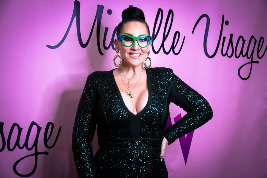 Michelle Visage at RuPaul's DragCon